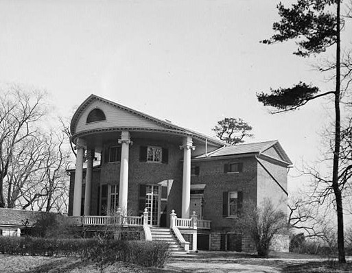 Old Turtle House, Post Road, Greenport (Columbia County, New York) cropped